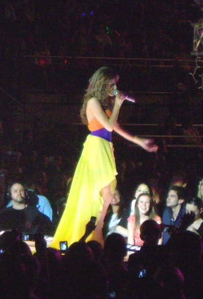 Cheryl performing at the 02 in London (2008)